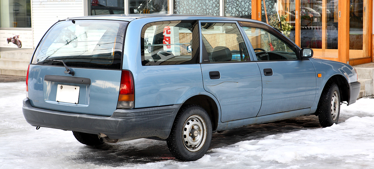 Nissan Avenir Cargo